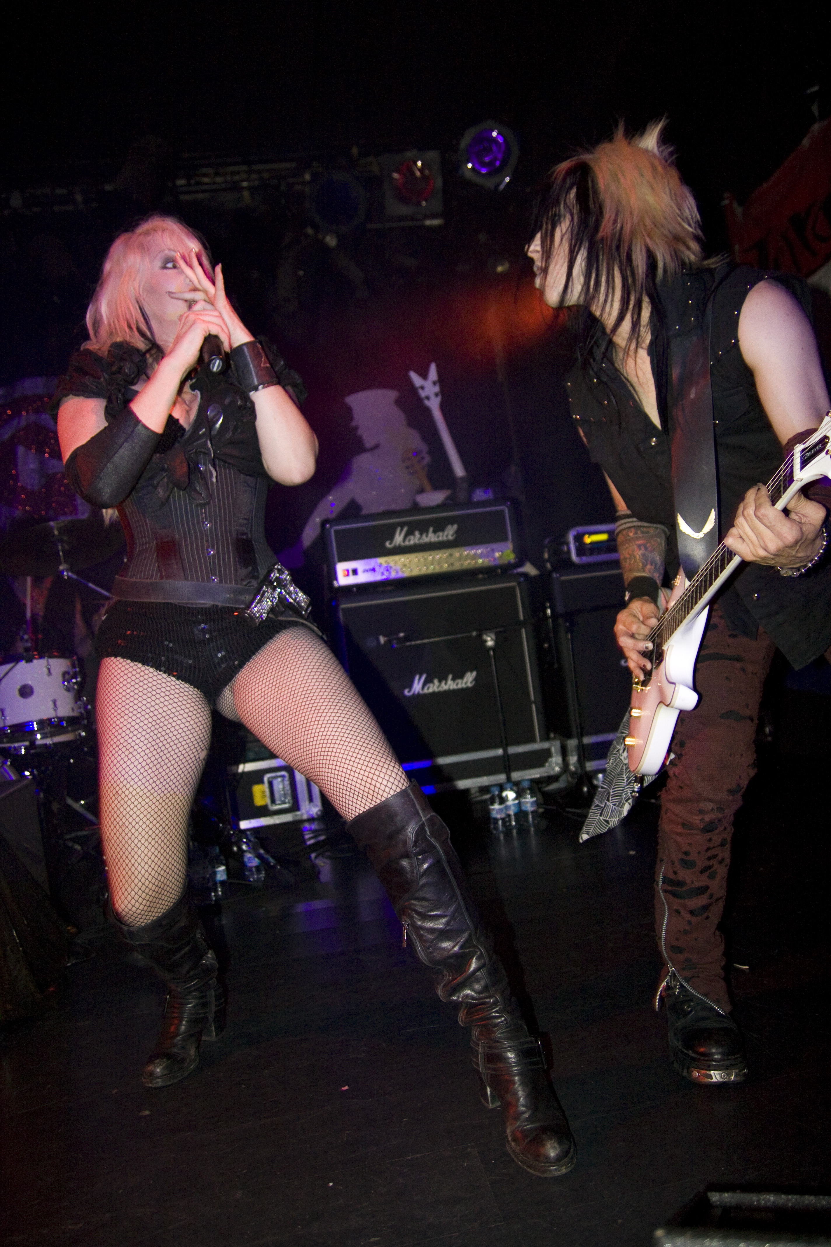 Genitorturers in Barcelona, Spain.